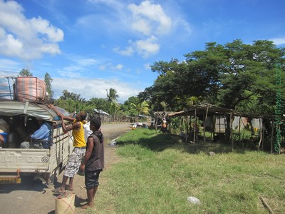 Mahavanona (Diana) - on route nationale 6 Taxi brousse